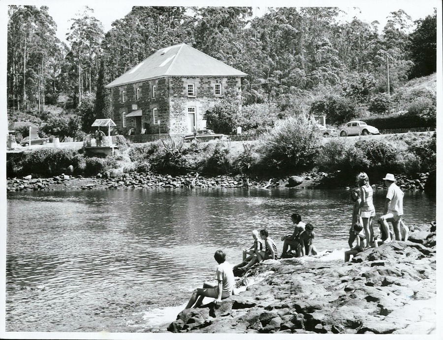 On 9 May 1832 the foundation stone of New Zealand’s oldest stone building, the Kerikeri Stone Store, was laid. Modelled on the missionary Samuel Marsden’s establishment at Parramatta, Sydney and built from sandstone, local volcanic rocks and burnt shell mortar, it was completed in 1836 and became the storehouse of the Church Missionary Society mission station. The station itself was founded in 1819 with the permission of a number of powerful rangatira of the day, including Hongi Hika and Rewa. Since then it has been used as a trading post, a library, a military barracks during the Northern War, a kauri gum store, a temporary boxing rink, a boys’ school, and a polling booth. Today the General Store offers an amazing range of authentic trade goods similar those first traded in the early 19th century. This photograph, taken by W. Neill in January 1970, comes from the collection of National Publicity Studios. It shows the Stone Store, the mission gardens behind it (which includes one of New Zealand’s oldest fruit trees, a pear tree planted in October 1819), and the small waterfall nearby. Archives Reference: AAQT 6539 Box 102/ A92907 For updates on our On This Day series and news from Archives New Zealand, follow us on Twitter Material from Archives New Zealand More information can be found at